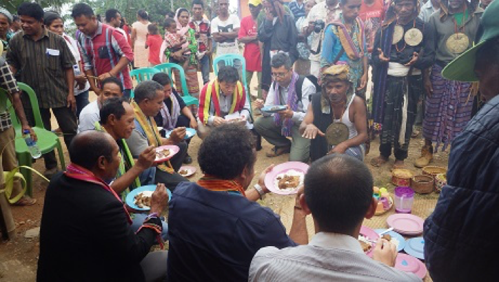 Tara Bandu ceremony for the inauguration of village regulation The community of Suco Fatisi held Tara Bandu for inaugurating the village regulation formulated under PLUP process. (Aug 2017)